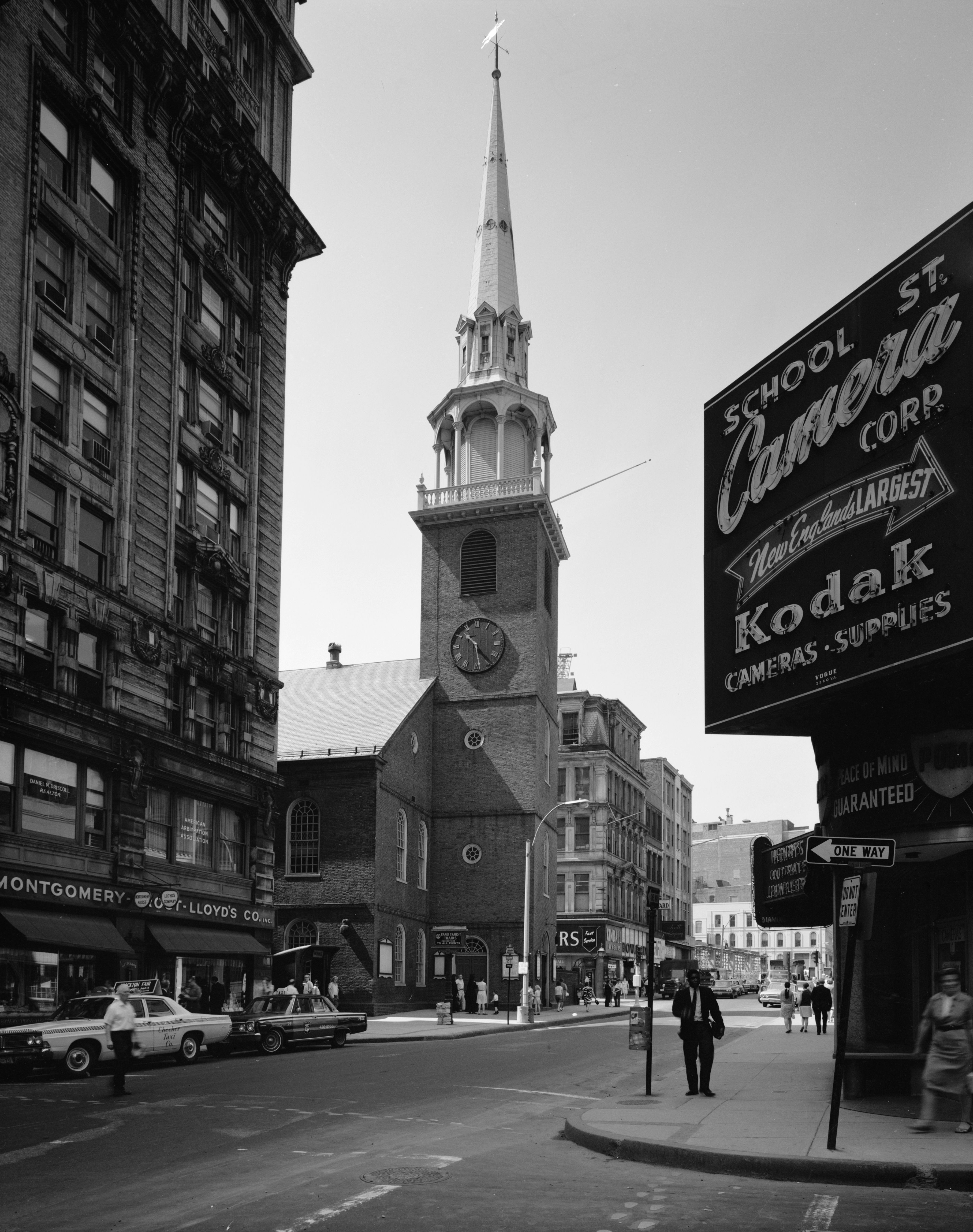 Old South Meetinghouse, Washington & Milk Streets, Boston, Suffolk County, MA